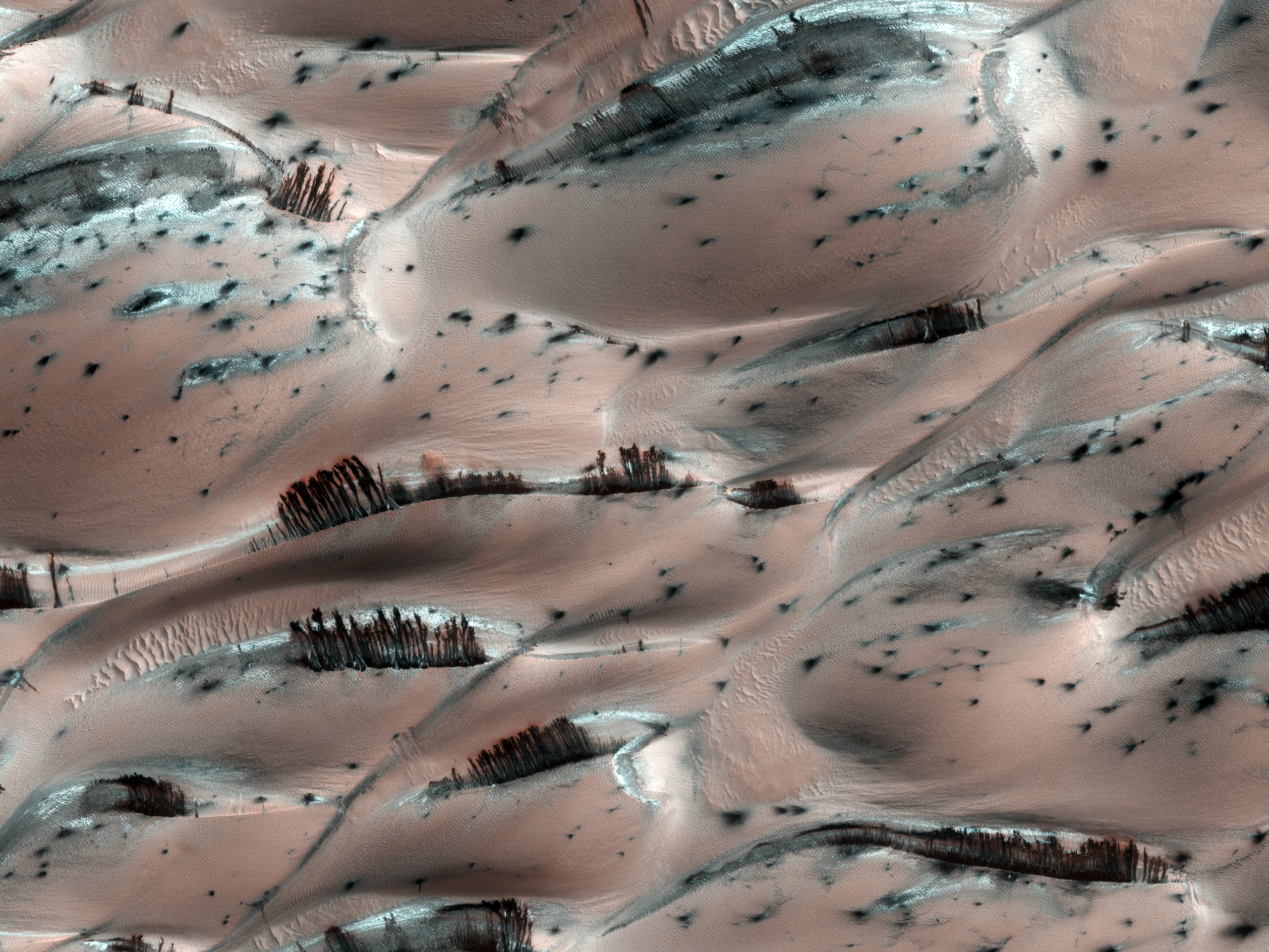 They might look like trees on Mars, but they're not. Groups of dark brown streaks have been photographed by the Mars Reconnaissance Orbiter on melting pinkish sand dunes covered with light frost. The above image was taken near the North Pole of Mars. At that time, dark sand on the interior of Martian sand dunes became more and more visible as the spring Sun melted the lighter carbon dioxide ice. When occurring near the top of a dune, dark sand may cascade down the dune leaving dark surface streaks -- streaks that might appear at first to be trees standing in front of the lighter regions, but cast no shadows. Objects about 25 centimetres across are resolved on this image spanning about one kilometre. Close ups of some parts of this image show billowing plumes indicating that the sand slides were occurring even when the image was being taken.